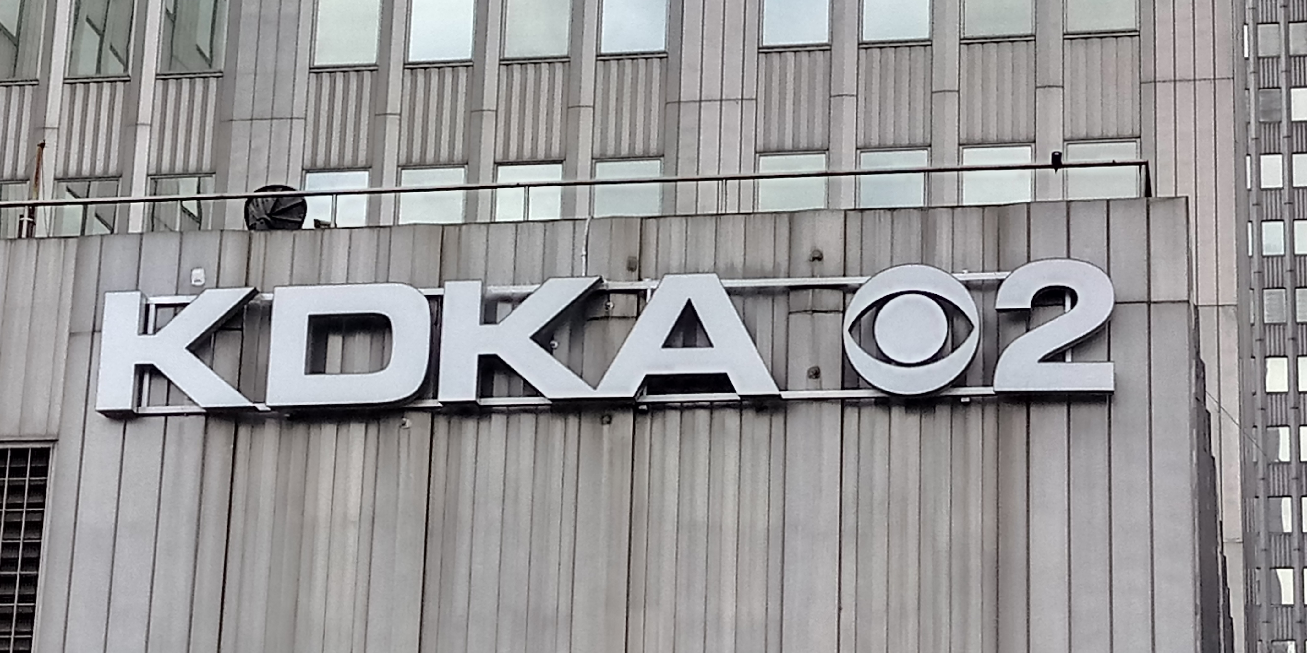 KDKA -TV Studios Updated April 2019 Signage